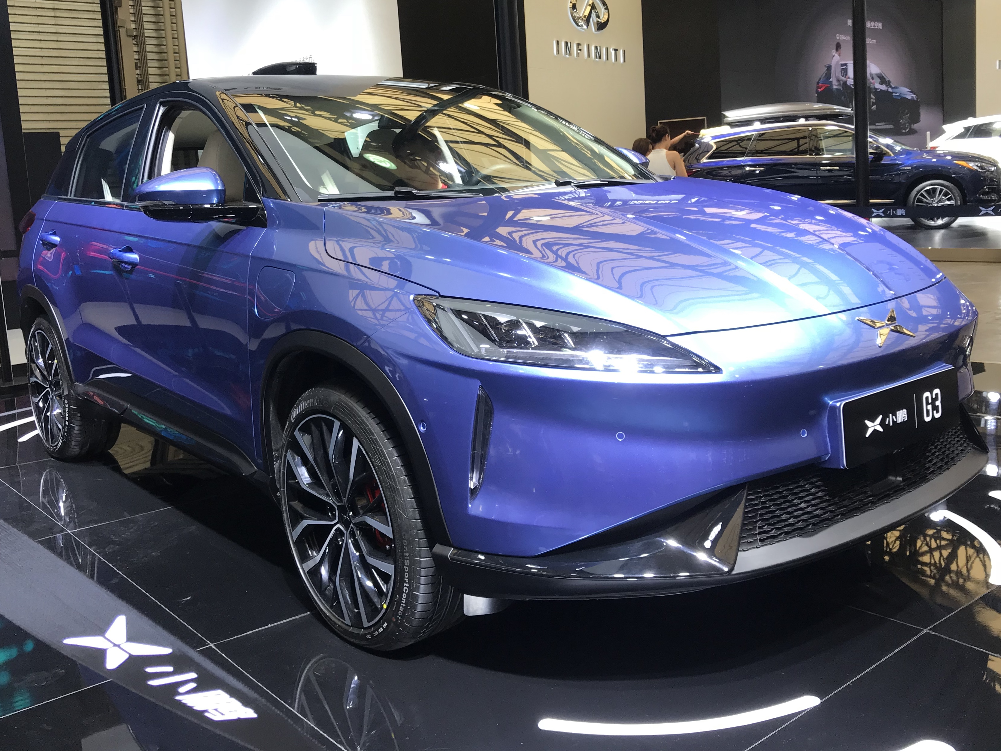 XPENG G3 front